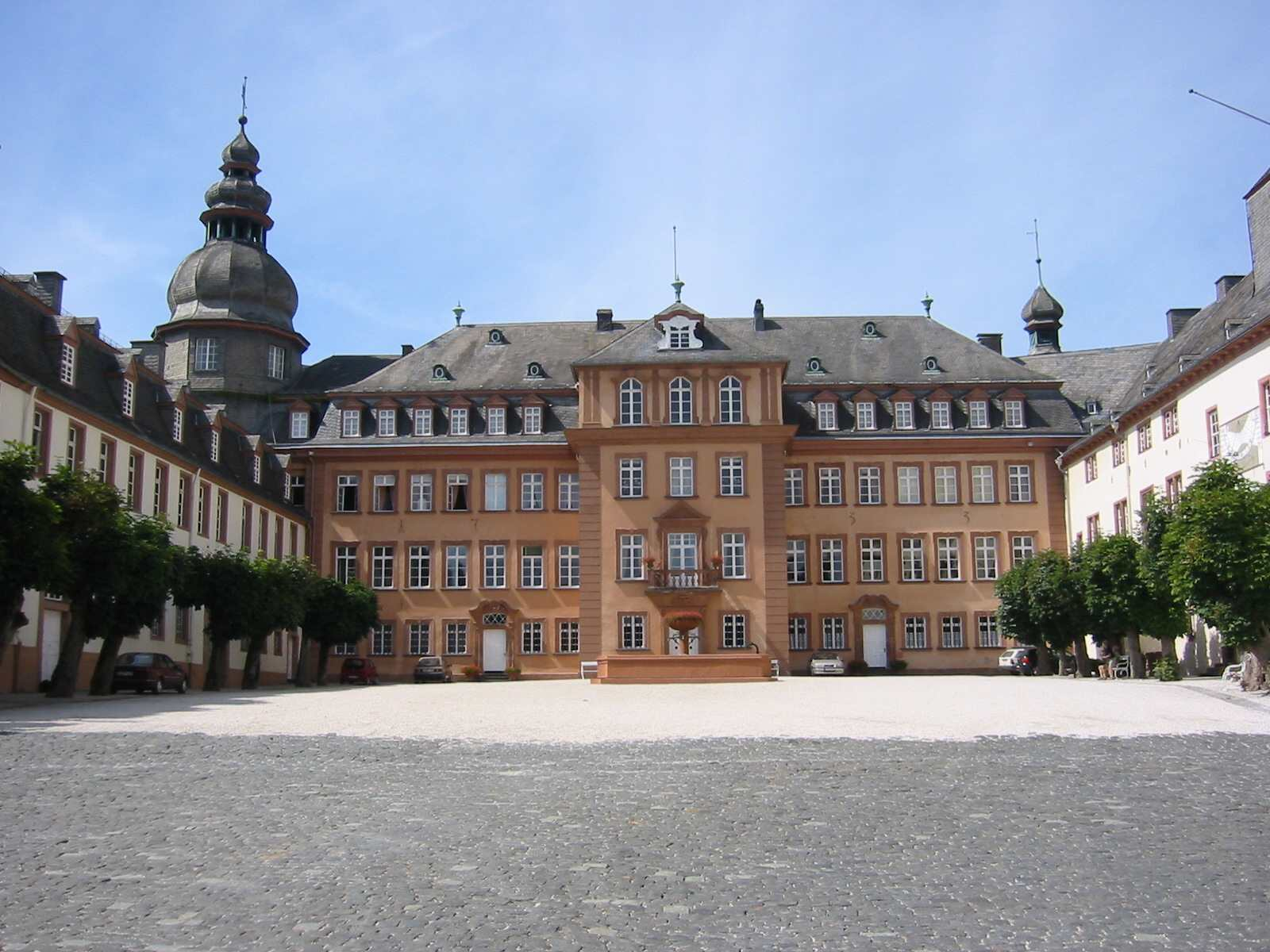 cultare heritage monument Bad Berleburg